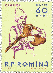 A cimpoi musician, Romania stamp, 1961.